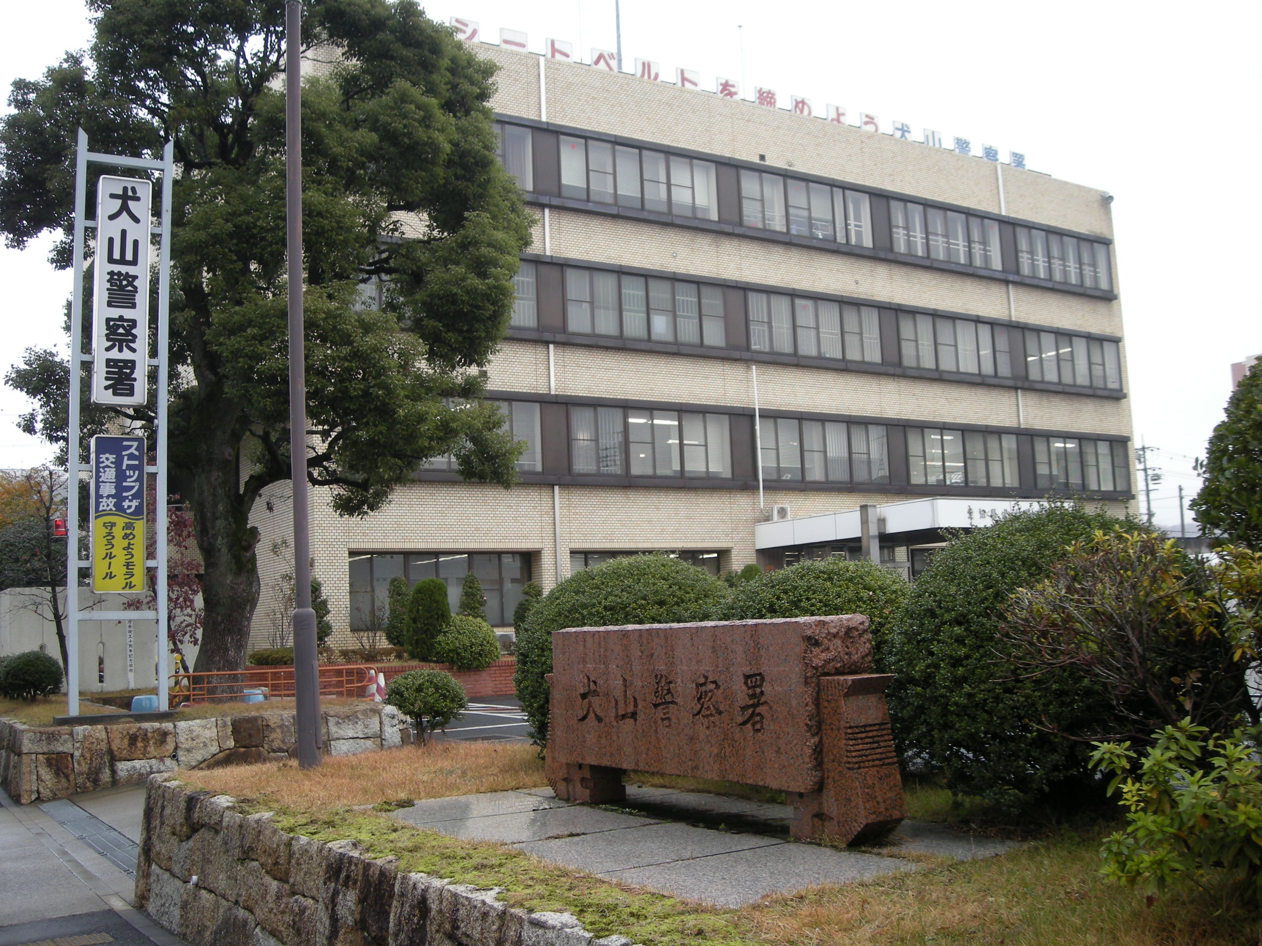 Inuyama Police Station（犬山警察署）